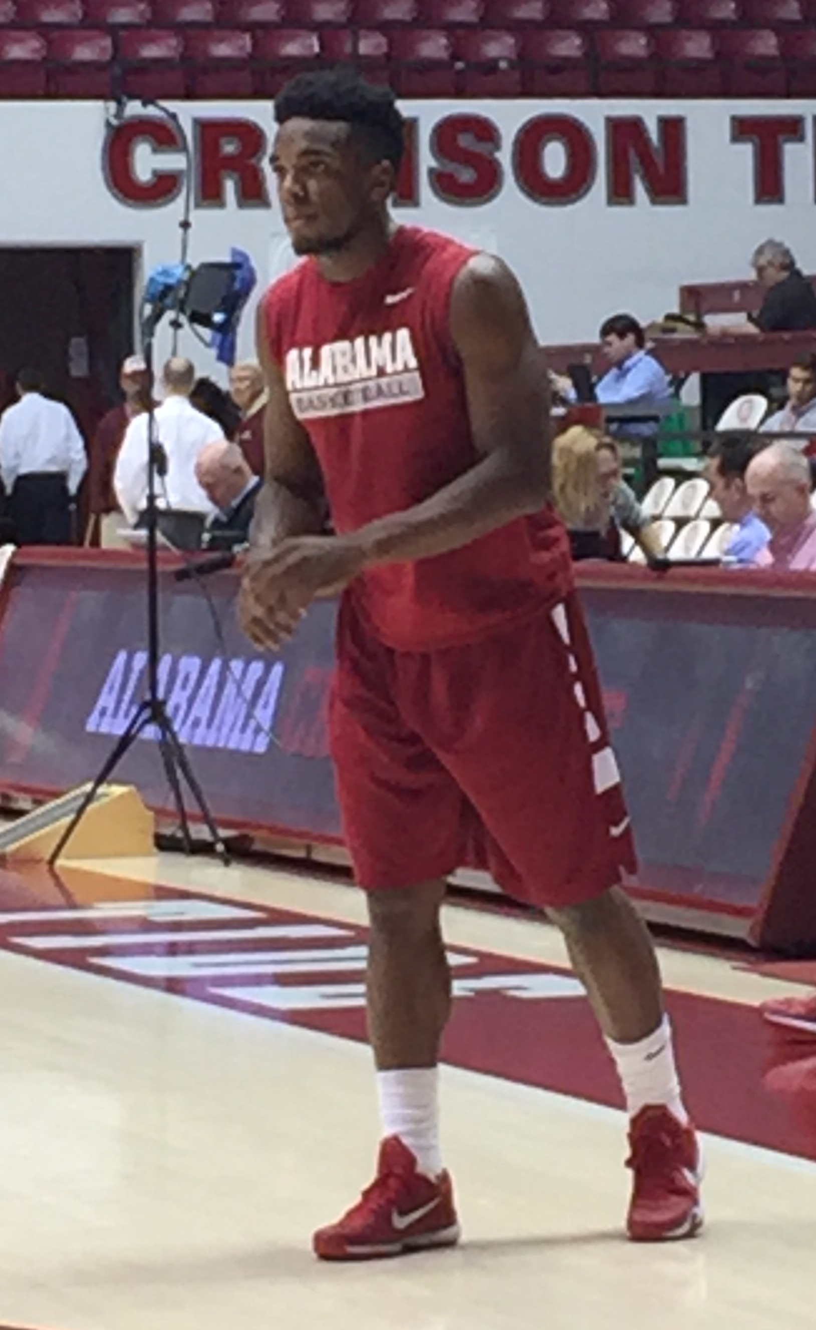 Alabama guard Retin Obasohan warming up for a 2016 game against Arkansas.